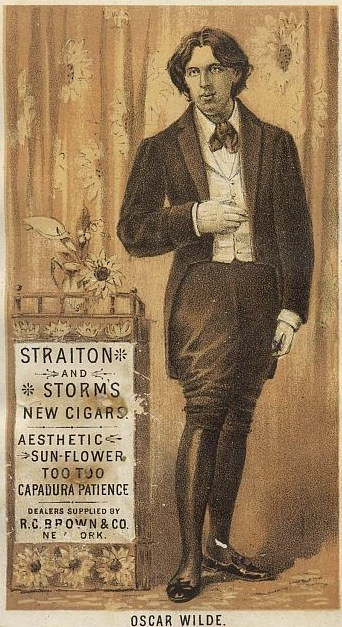 Trade card of a cigar dealer after a photograph of Napoleon Sarony, using Oscar Wilde's popularity during his American trip of 1882